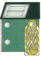 Shoulderboards and collar patches (alt-Larisch) of Field Marshals von Rundstedt, Chef of the 18th Infanterie Regiment